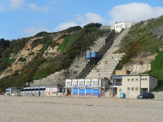 The East Cliff Railway at Bournemouth, Dorset, England. For more information see the Wikipedia article East Cliff Railway .